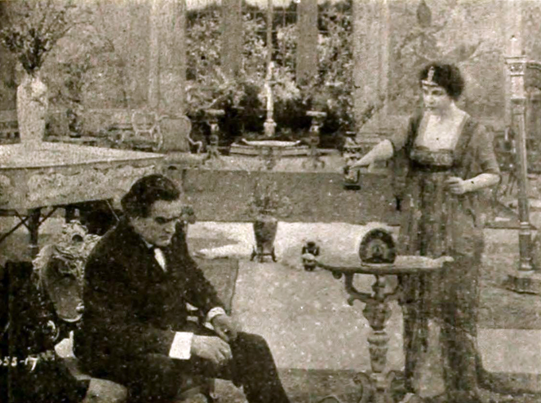 Illustration of a review in The Moving Picture World for the American drama film The Eye of God (1916).